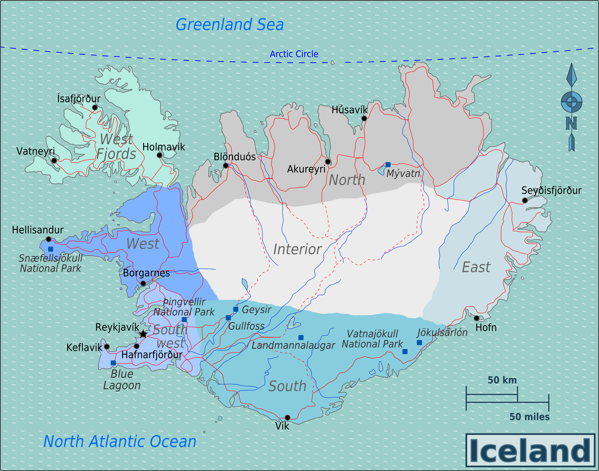 Travel map of Iceland for use on Wikivoyage, English version (obsolete)